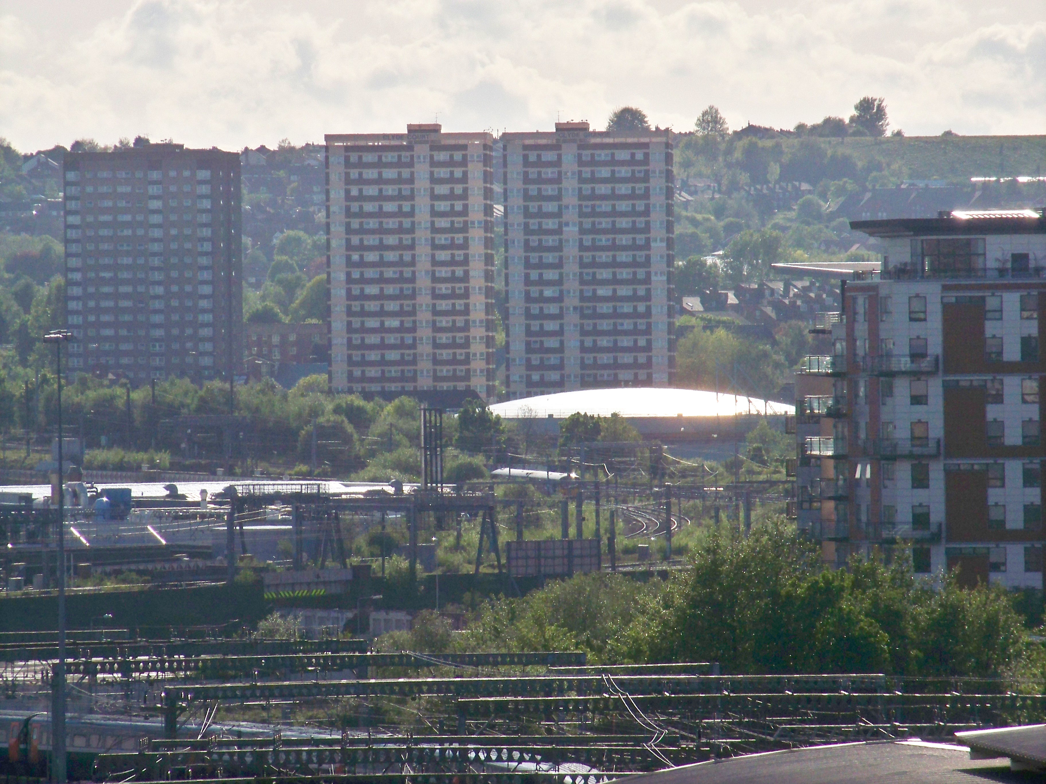 An overview of Wortley showing the Clyde Grange flats, New Wortley railway junction and New Wortley Gas Holder. Taken from the Q-Park multi story car park on Swinegate on Leeds City Centre on 9th May 2009.